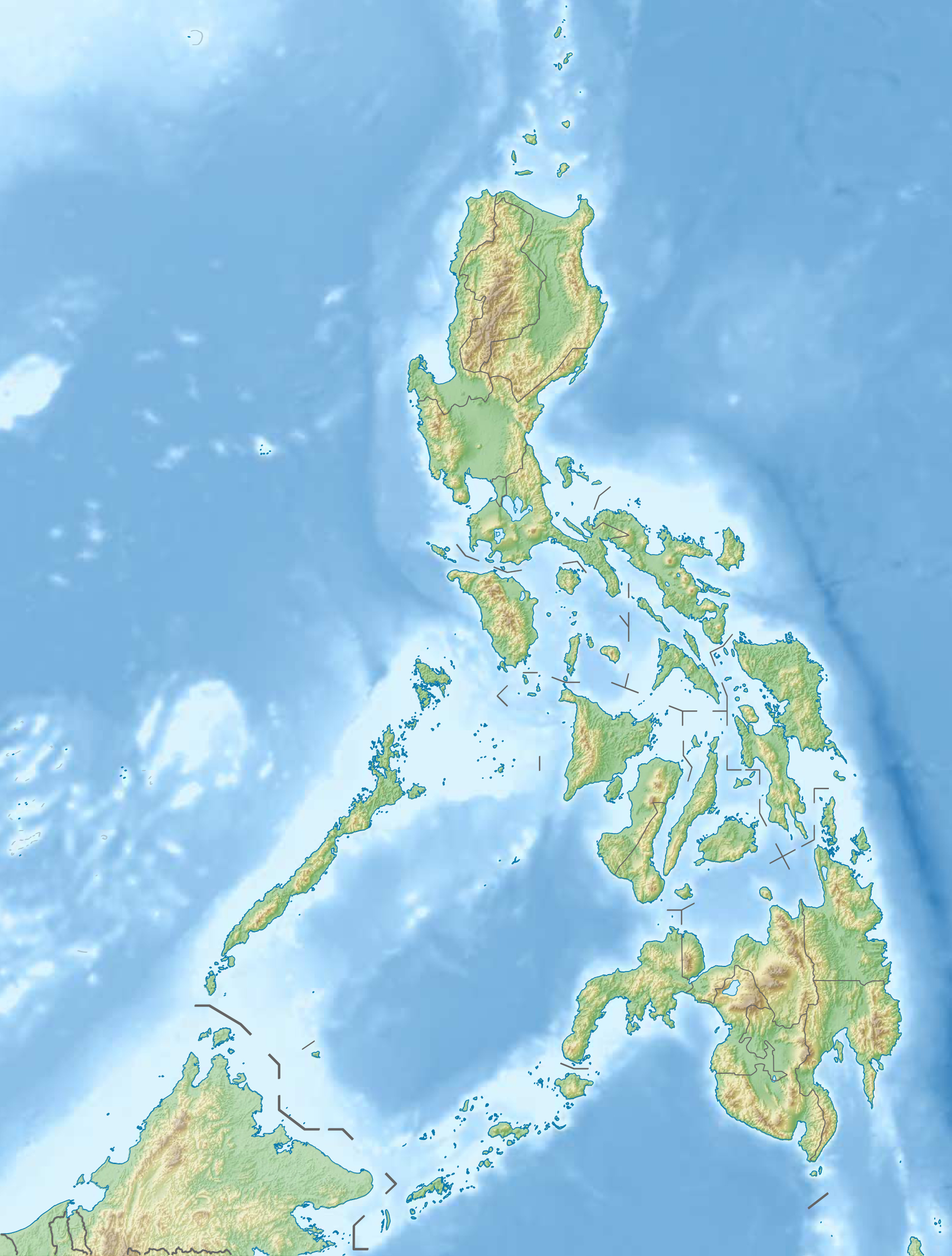 Physical location map of the Philippines Equirectangular projection, N/S stretching 103 %. Geographic limits of the map: N: 21.2° N S: 4.3° N W: 114.1° E E: 127.3° E